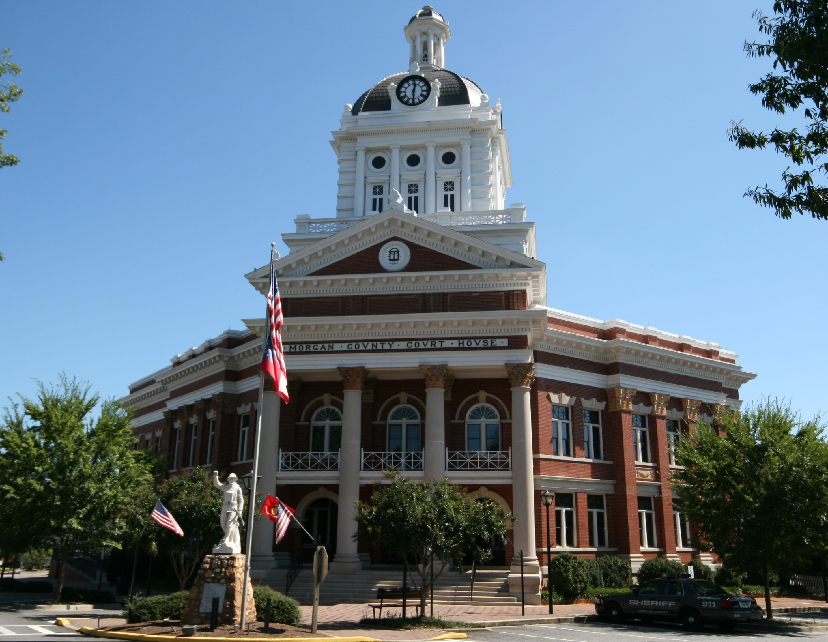 Morgan County Courthouse, Morgan County, Georgia